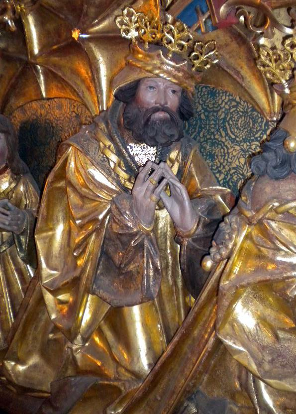 Sculpture of King Christian II of Denmark, Norway and Sweden by Claus Berg about 1530Place: Church of St. Canute’s, Odense, Denmark